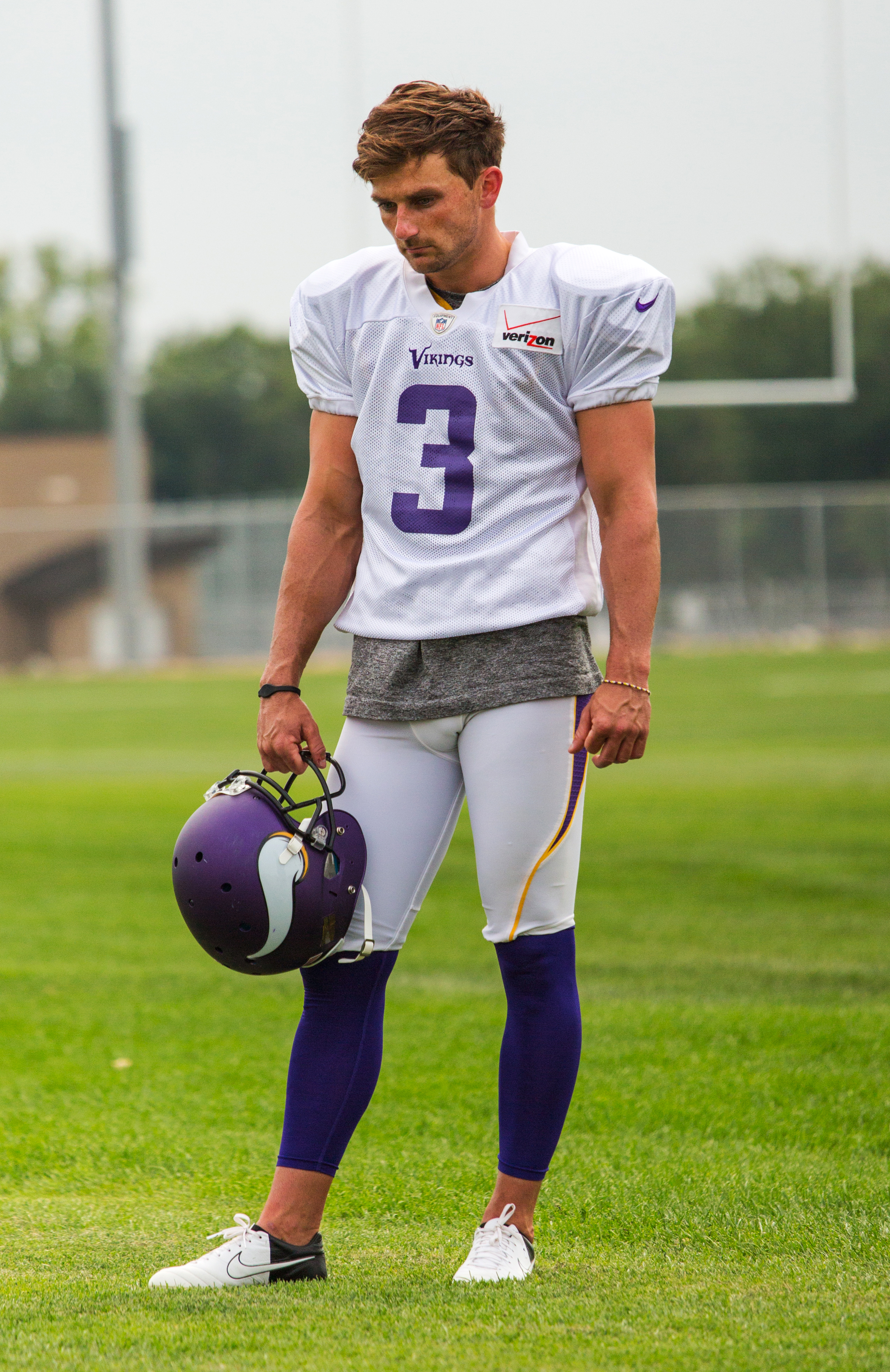 Minnesota Vikings kicker Blair Walsh during 2014 training camp.